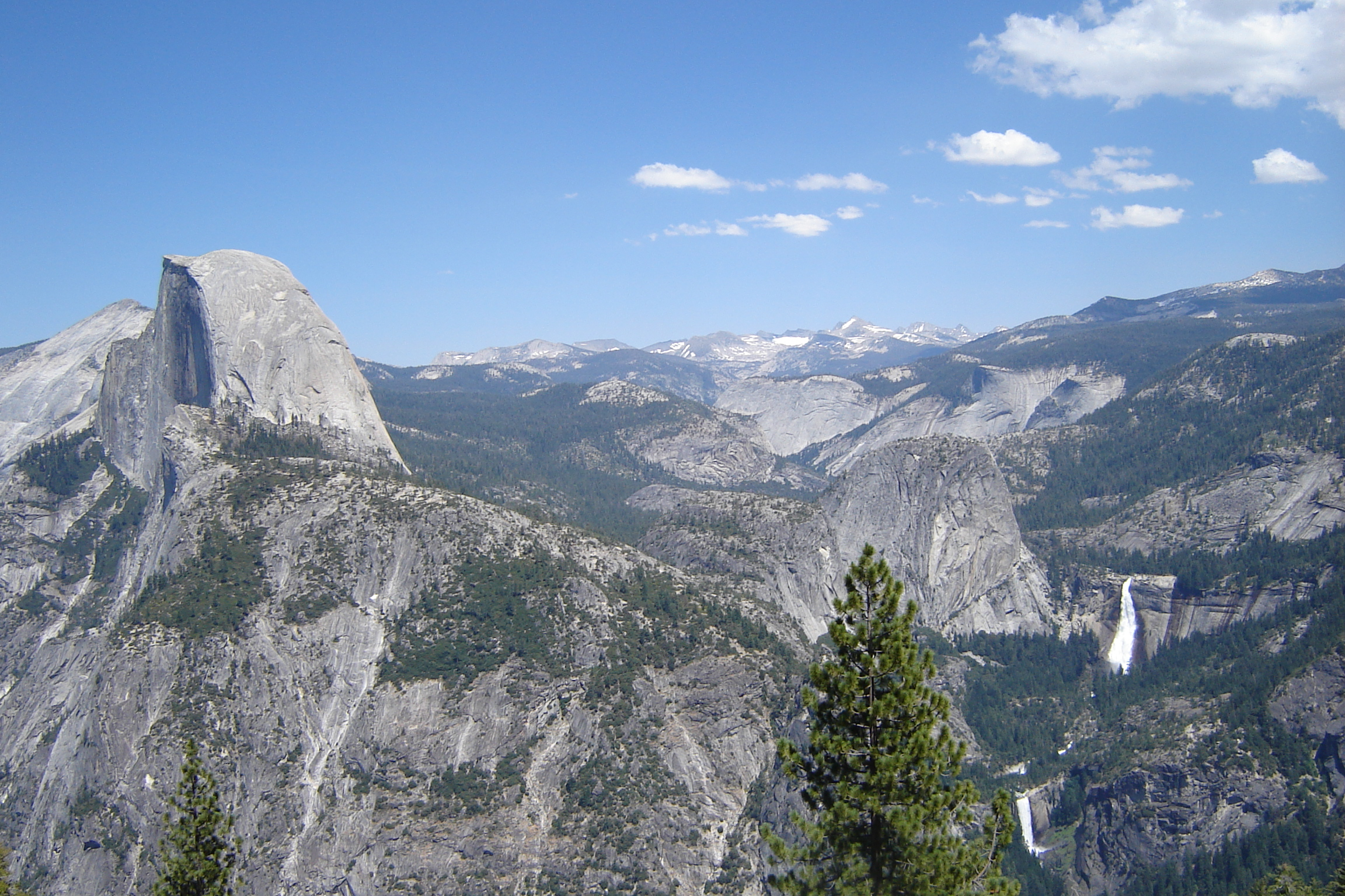 View of Yosemite National Park, including the Half Dome rock formation and waterfall.